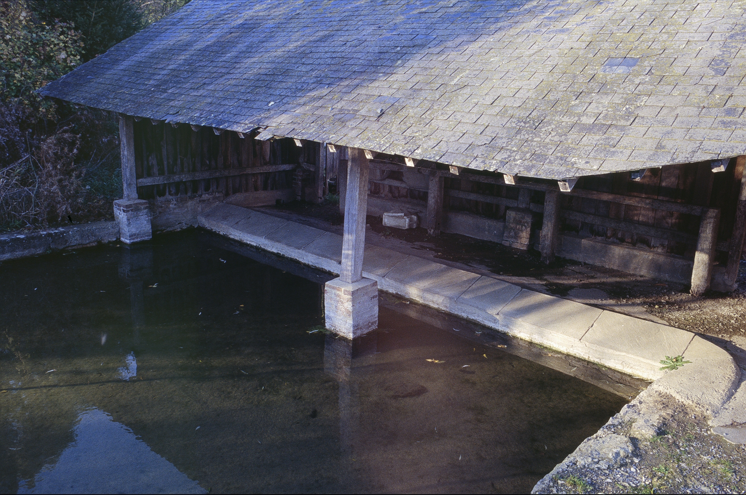 Wash house in Soulangy